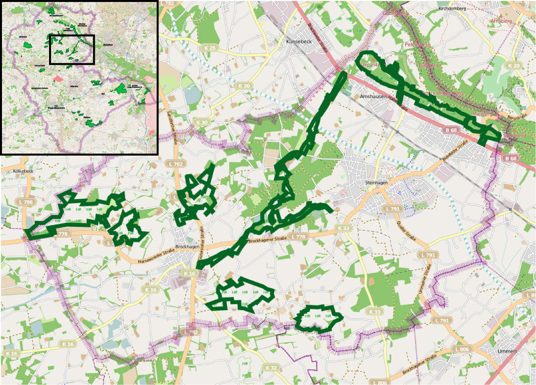 Nature reserves in Steinhagen, North Rhine-Westphalia - overview map Number and borders of nature reserves are subject to frequent change. In order to facilitate reproduction of this map from openstreetmap, the following data is stored here: export boundaries: north: 52.046; west: 8.28 south: 51.962; east: 8.47 mapnik svg, scale 1:70.000 nature reserve boundary stroke weight 3.5; nature reserve stroke color: R 5, G 102, B 36; district border stroke weight: 20